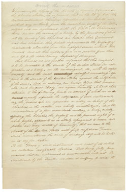 Original Caption: The Cherokee who did not support the New Echota Treaty, which stripped the tribe of their land and rights and eventually led to the Trail of Tears, sent this petition to the Senate in 1836. U.S. National Archives’ Local Identifier: SEN24B-C4 From:: Records Relating to Treaties with Indian Tribes, compiled 1789 - 1871 Created By:: U.S. Senate. (03/04/1789 - ) Production Date: 1836 Persistent URL: Repository: Center for Legislative Archives (NWL), National Archives Building Reproductions may be ordered via an independent vendor. NARA maintains a list of vendors at Access Restrictions: Unrestricted Use Restrictions: Unrestricted